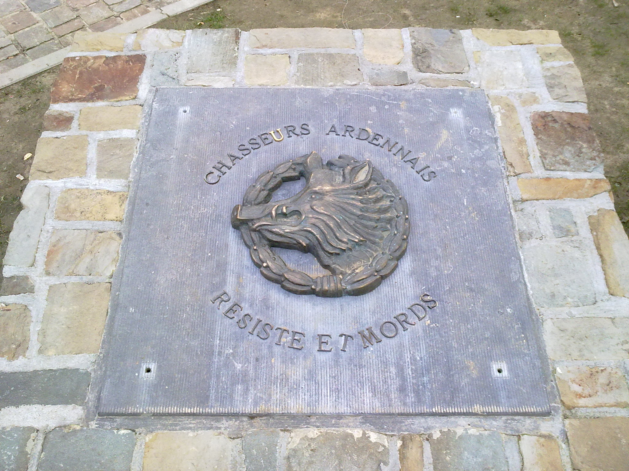 on Place Chasseurs Ardennais, Schaerbeek, Belgium